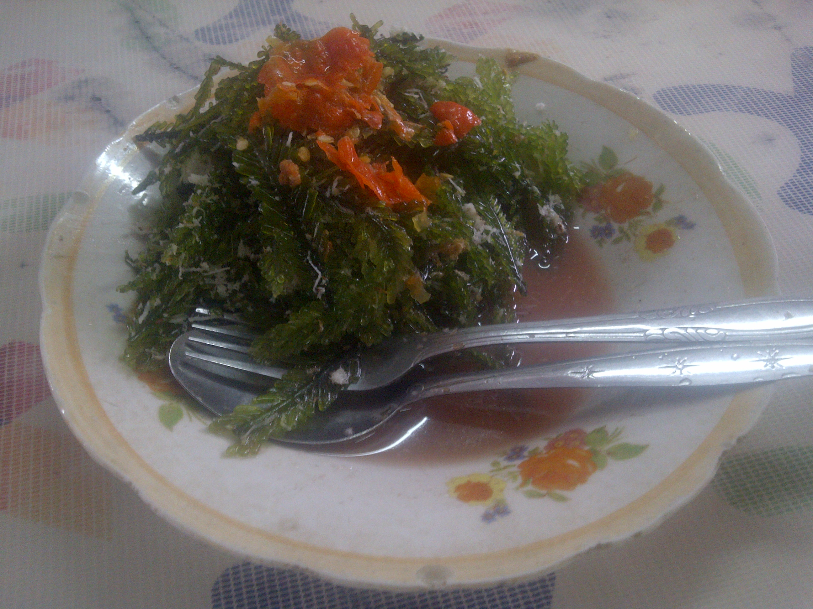 Hot Bulung boni with chilly